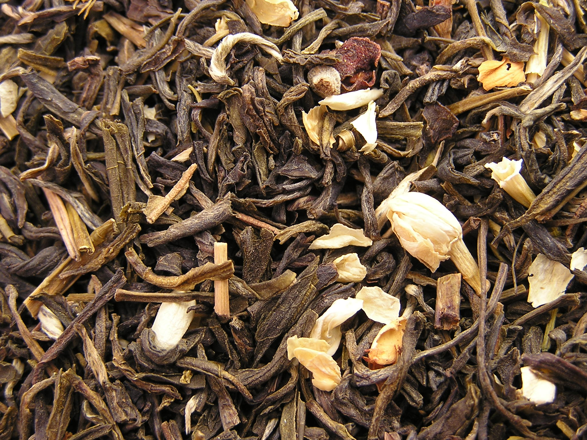 Green tea with jasmine